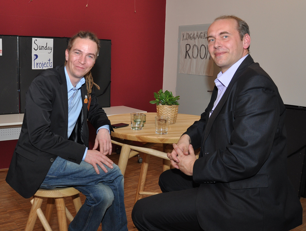 Conference of Pirate Parties International in April 14.-15. 2012 in Prague. Left to right: Ivan Bartoš, Libor Michálek